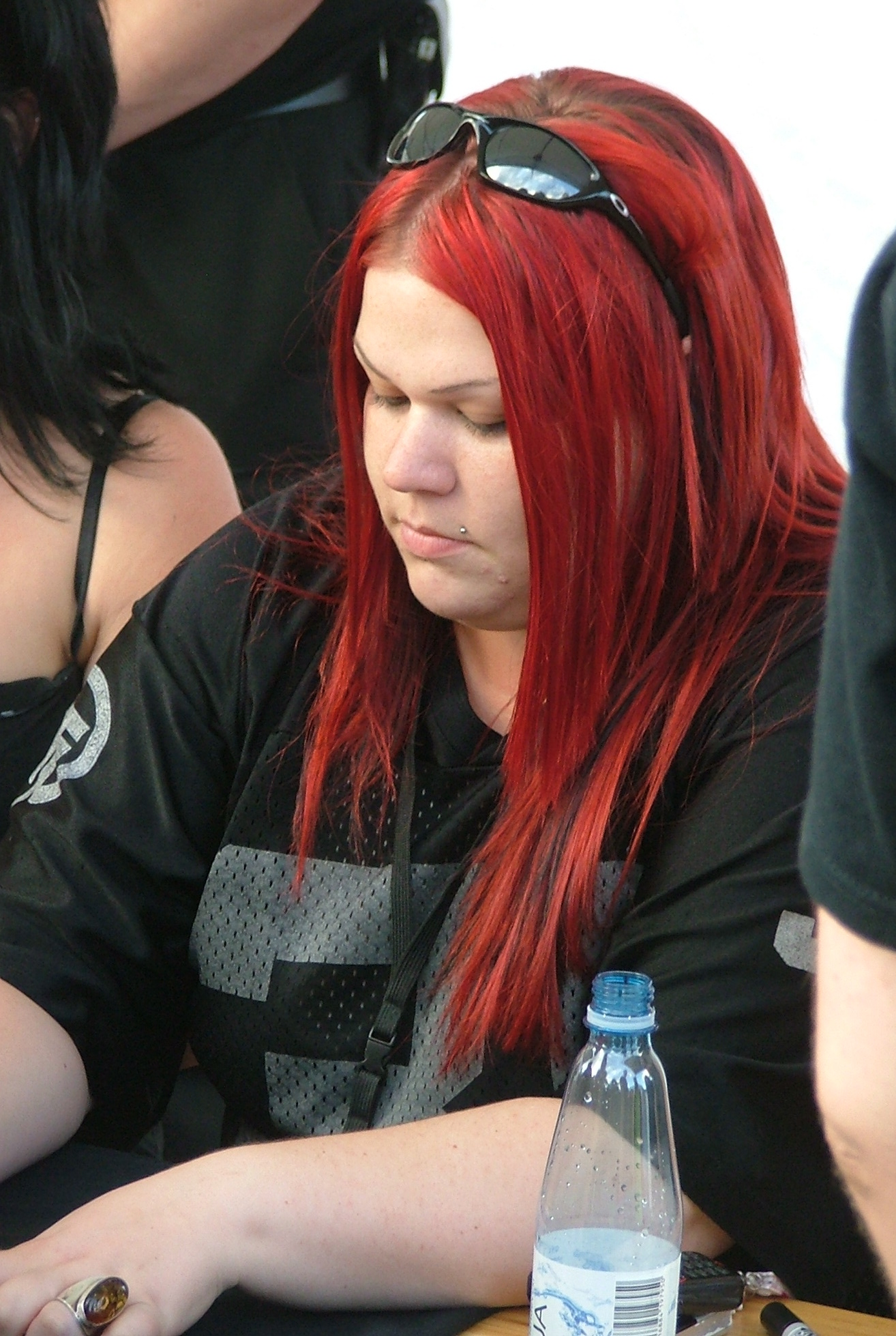 Sarah Jezebel Deva of English metal band Cradle of Filth in Kuopio at Rockcock-musicfestival